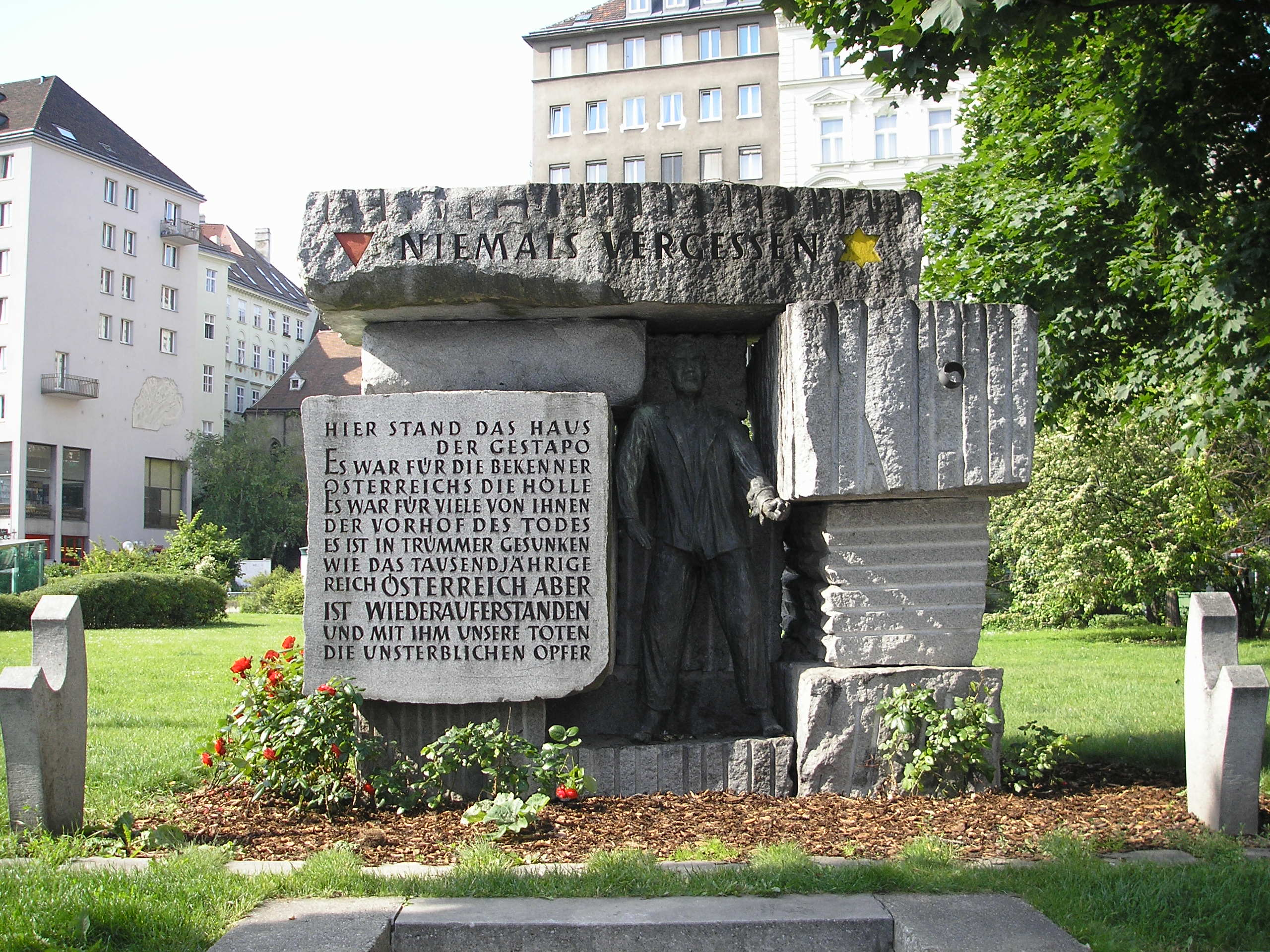 The Mahnmal für die Opfer der NS-Gewaltherrschaft (Monument for the victims of Nazi-terror) at the former GESTAPO headquarters in the Hotel Metropol, located in Vienna's first district Innere Stadt.